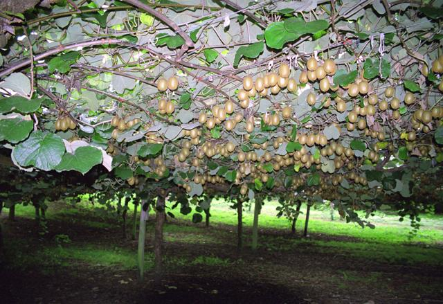 A plantation for kiwifruits (Actinidia deliciosa)